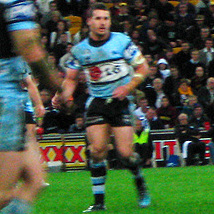 Rugby league player Brett Seymour